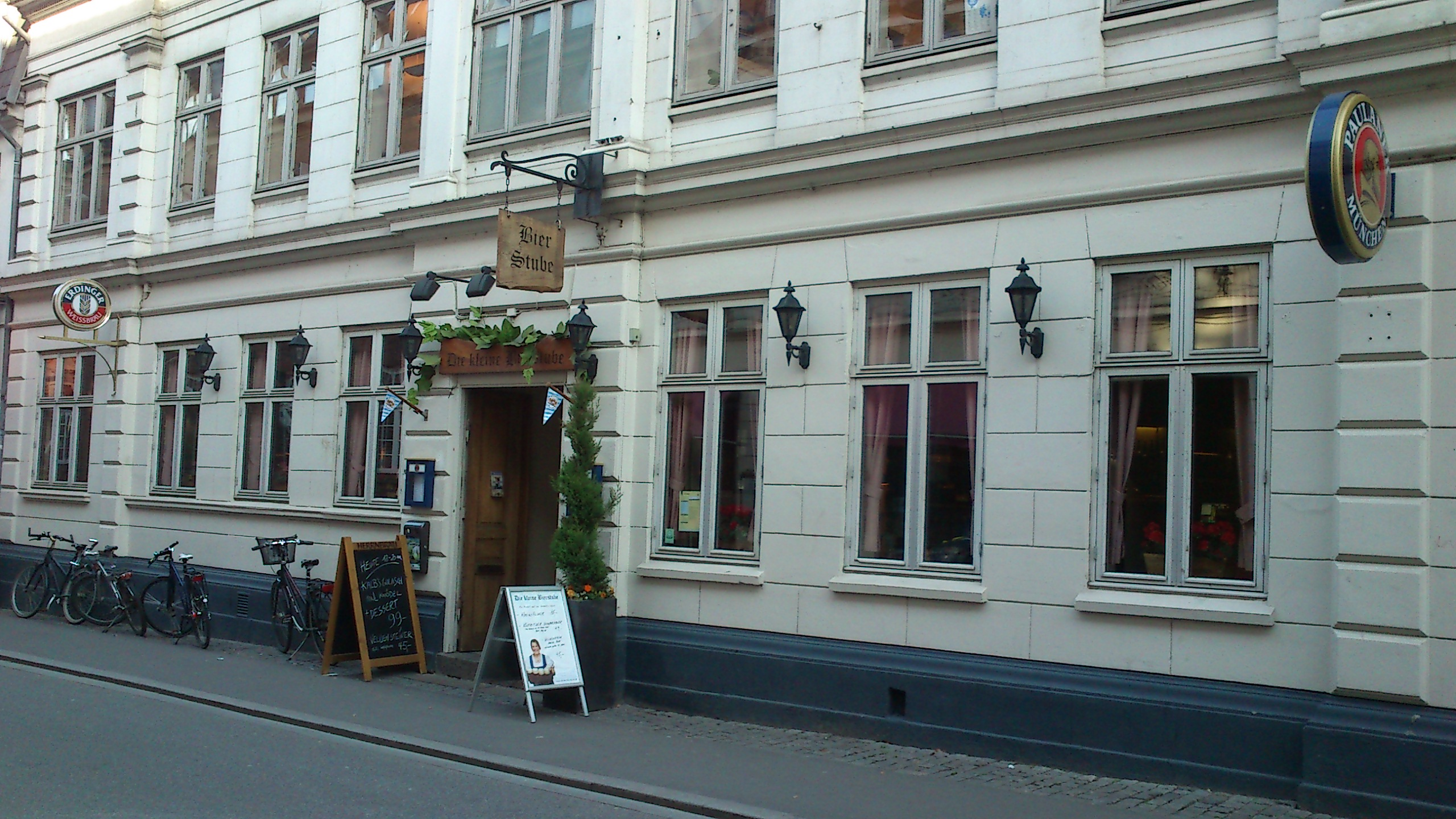 Die Kleine Bierstube